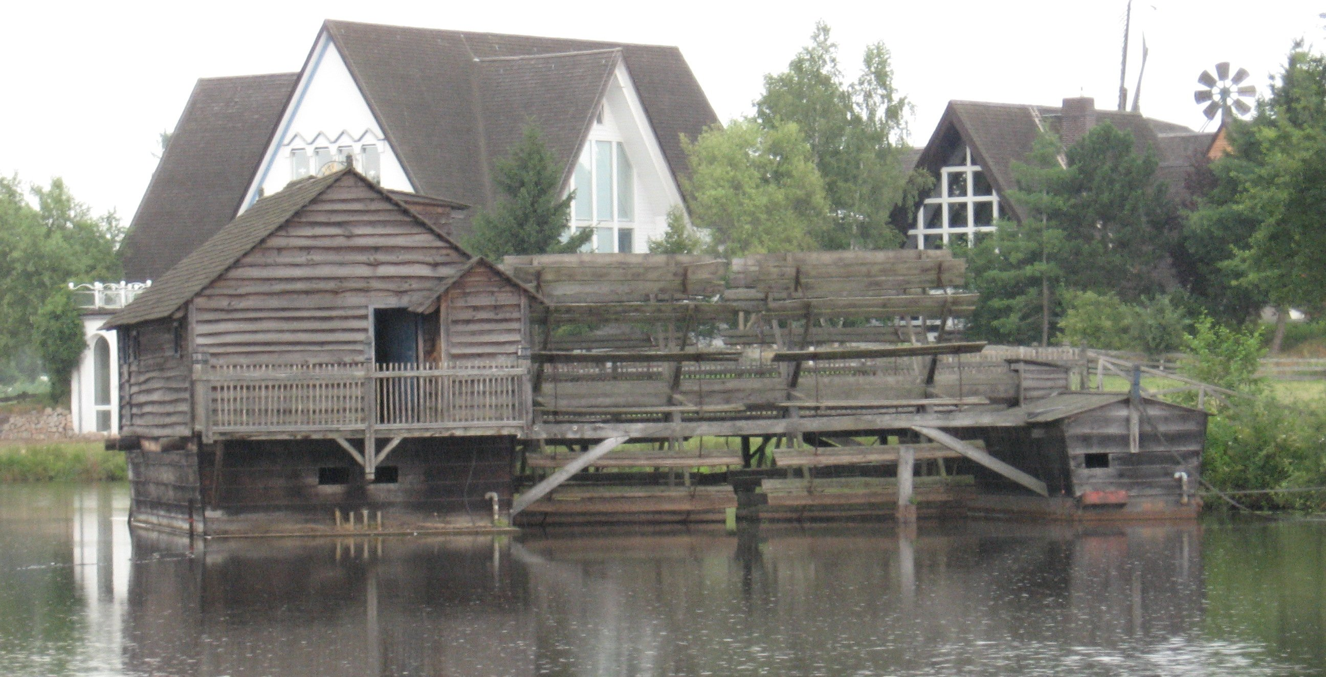 The Hungarian Ship-Watermill in the International Museum of Mills, Gifhorn, Germany